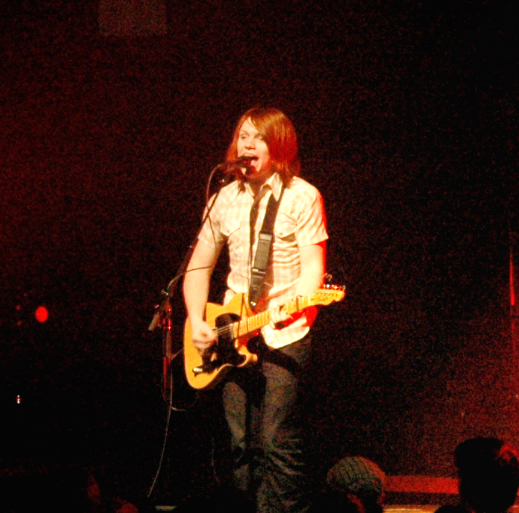 Leeland lead singer Leeland Mooring in concert in February 2007.